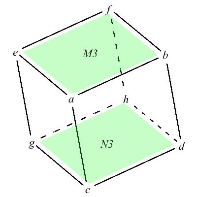 Bhargava cube showing the pair of opposite faces corresponding to M3 and N3.